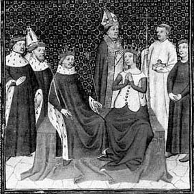 Coronation of Charles V and Jeanne of Bourbon